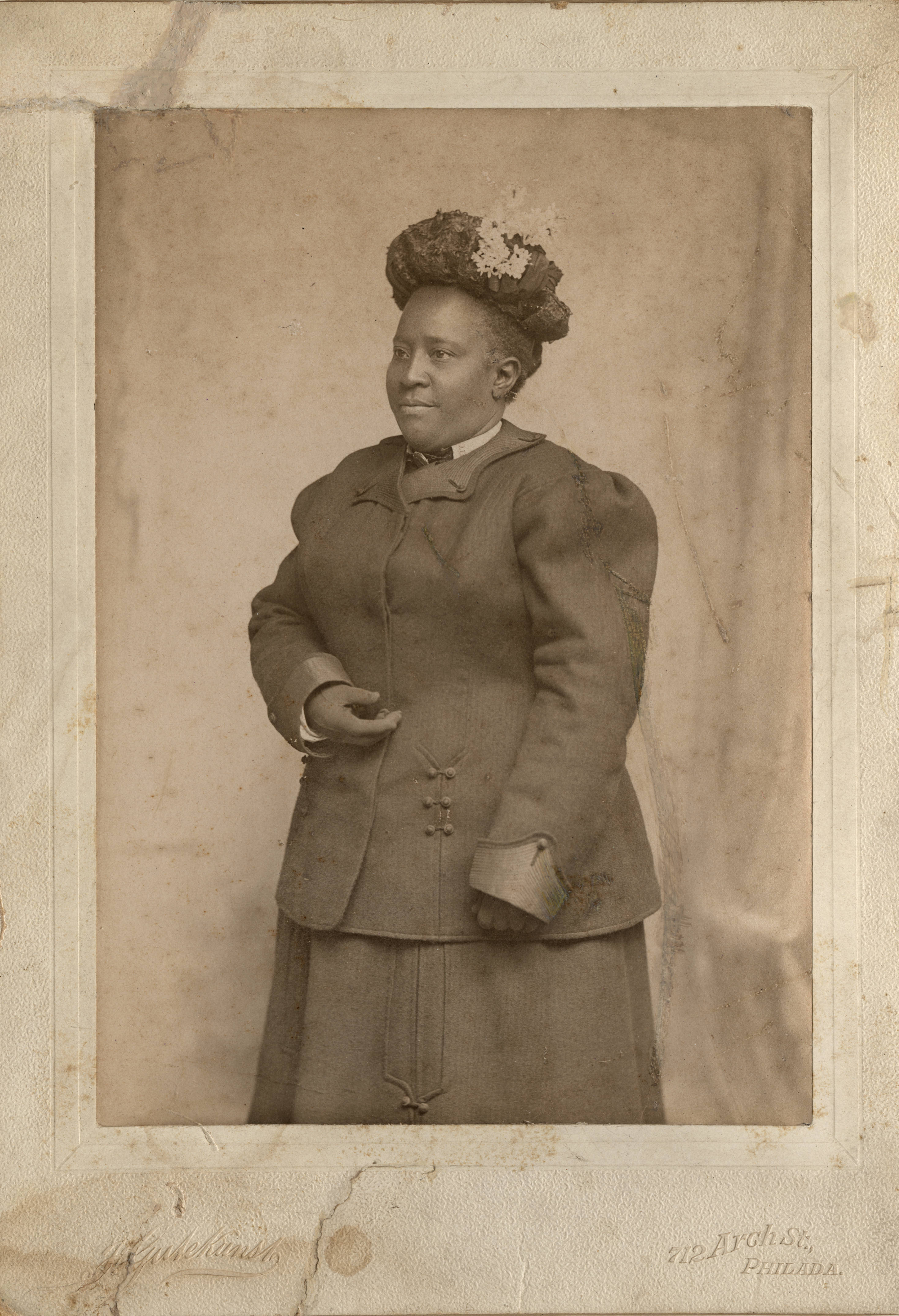 Caroline Still Anderson (1848-1919), African American physician from Philadelphia